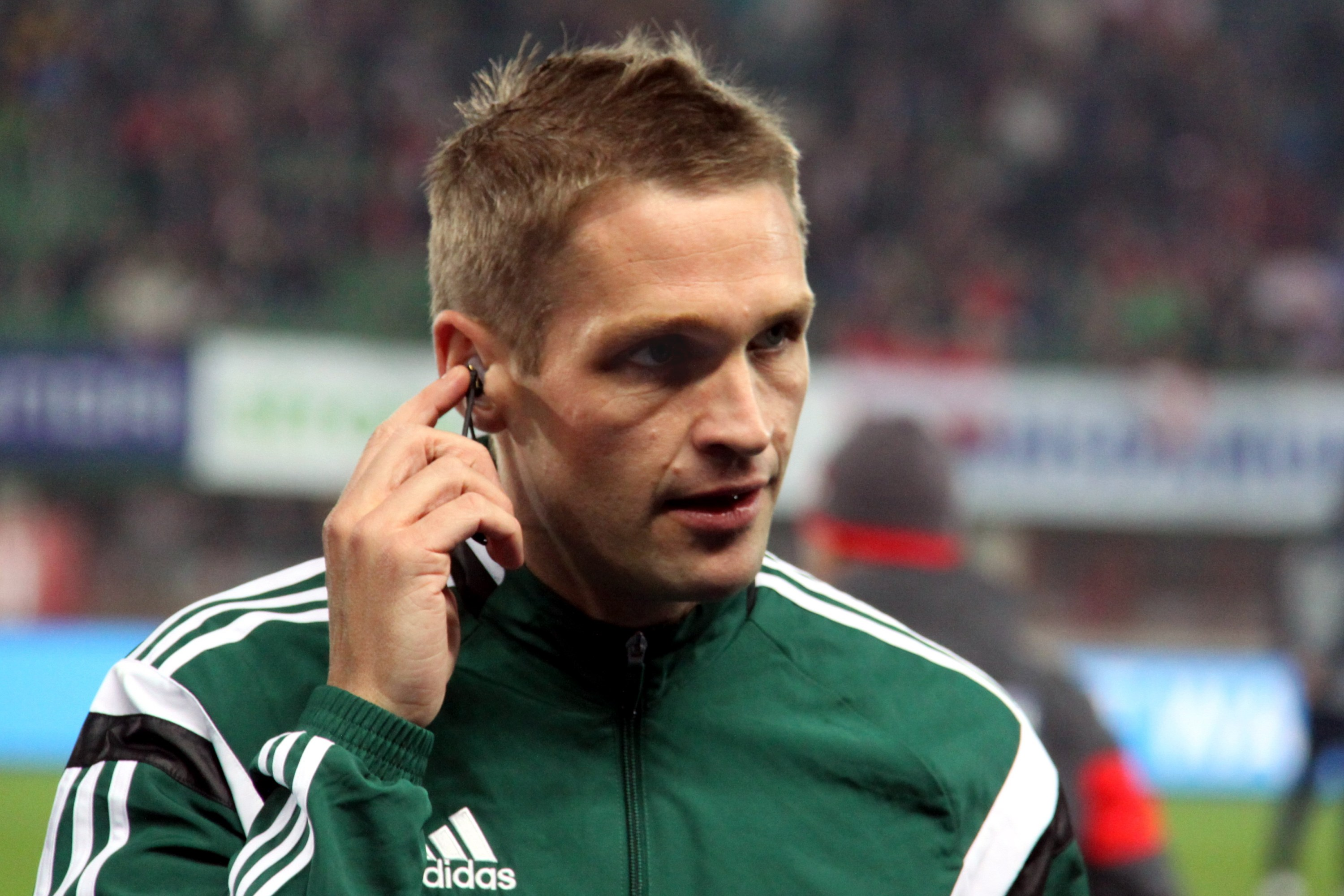 UEFA Euro 2016 qualifying: Austria vs. Russia (1:0 / 0:0) at 2014-11-15 in the Ernst-Happel-Stadion in Vienna. – The photo shows Craig Pawson (England).